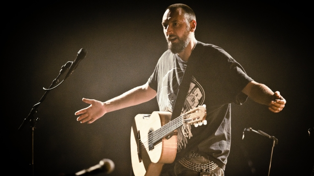 Fink onstage in 2011 at Tivoli, Utrecht